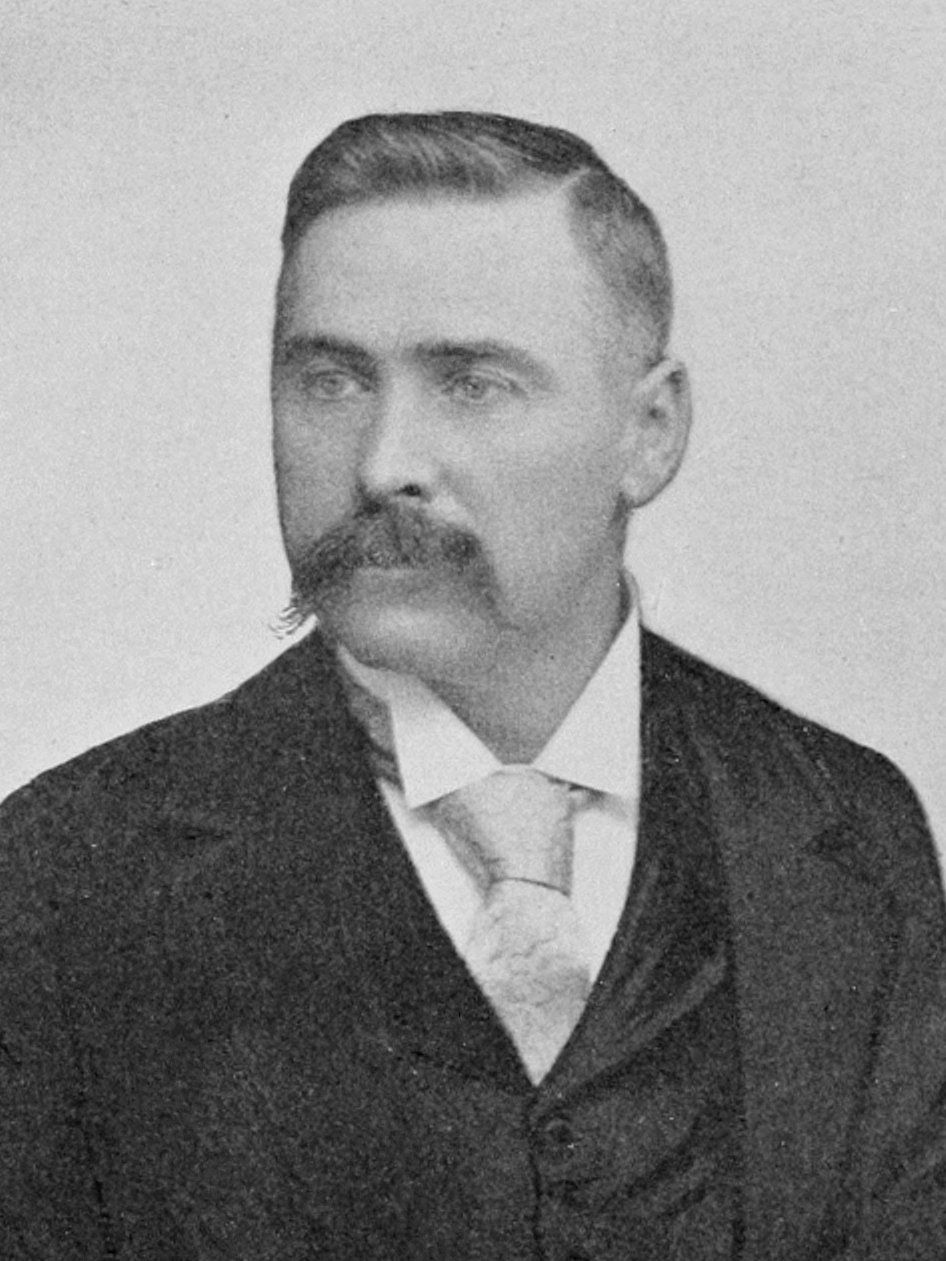 John E. Kelley, South Dakota Congressman